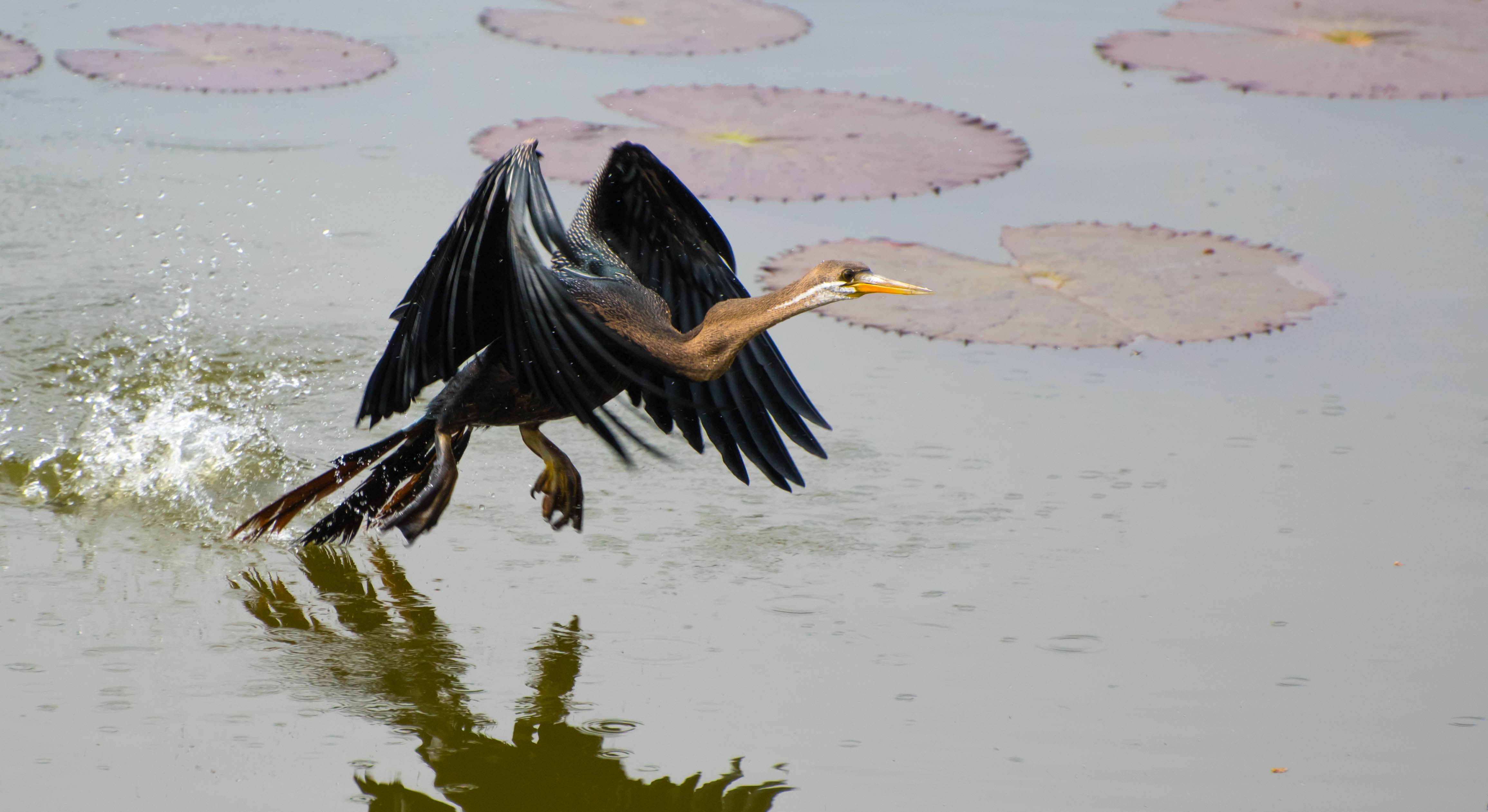 The Indian Darter at the Lalbhag, Bangalore, India